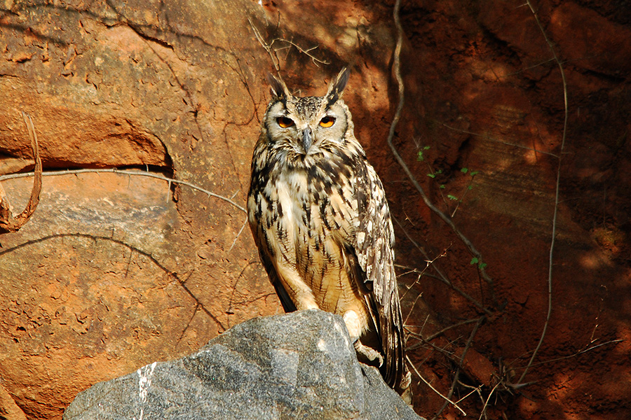 Indian Eagle Owl Bubo bengalensis, Nanmangalam, Tamil Nadu, India